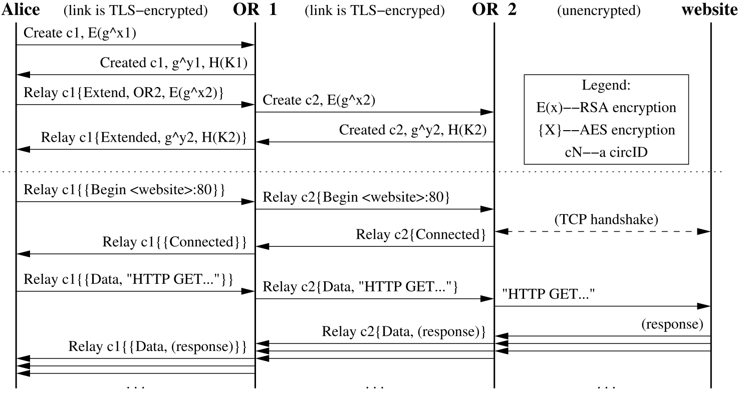 Tor circuit building and data sending/receiving diagram from Tor: The Second-Generation Onion Router (2004). It is probably outdated; for example, newer versions had to send "relay_early" cell in order to extend the circuit ( It is still useful for basic illustrations. Published first for Usenix security conference 2004